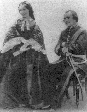 Photograph of Harriet and Robert Tytler